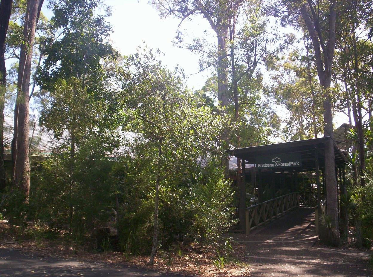 Entrance to Brisbane Forest Park Headquarters ( this photograph was taken by Figaro )